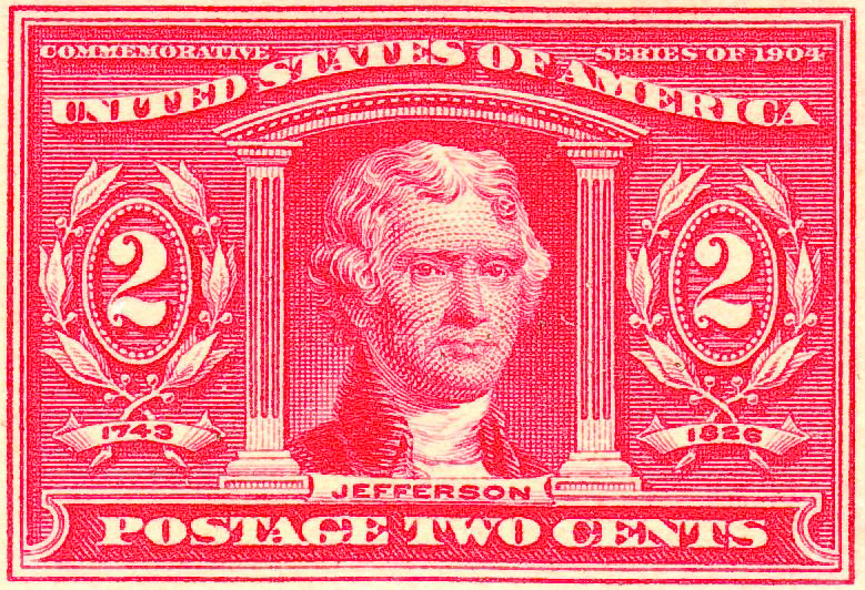 Thomas Jefferson portrait. Unlike with the regular issues Jefferson was the first American President to be honored on a commemorative postage issue, even before Washington was whenthe US Post Office 21 years later finally issued its first commemorative issuefeaturing Washington in its Lexington-Concord issue of 1925.